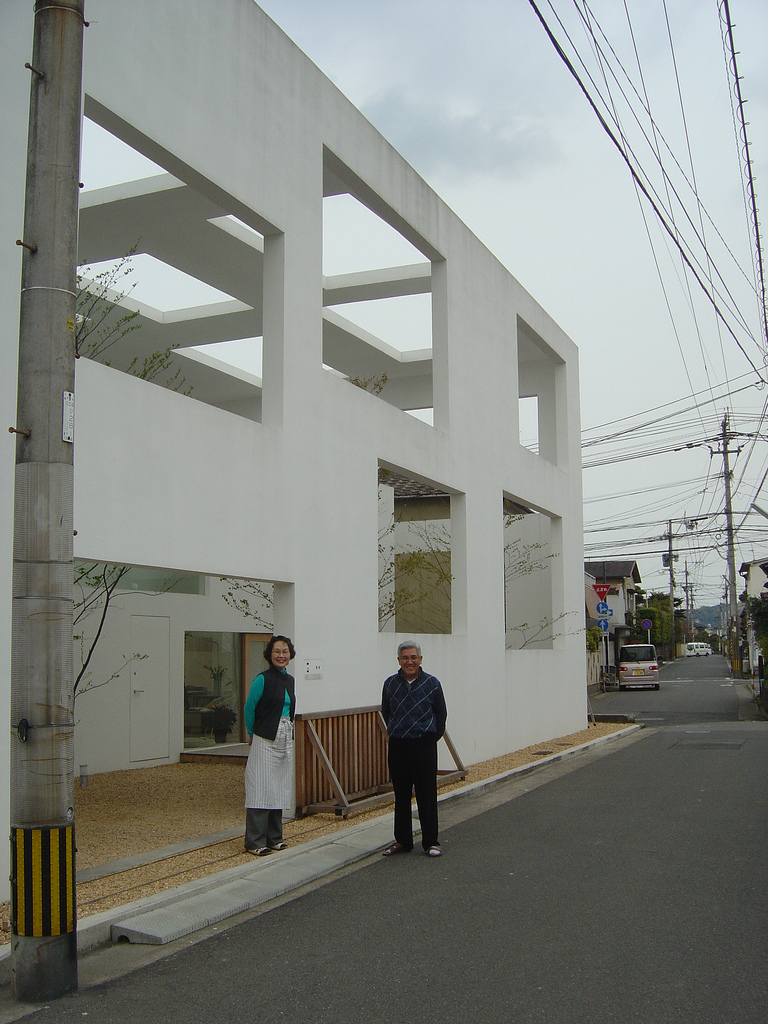 N House in Oita, Japan, designed by Sou Fujimoto